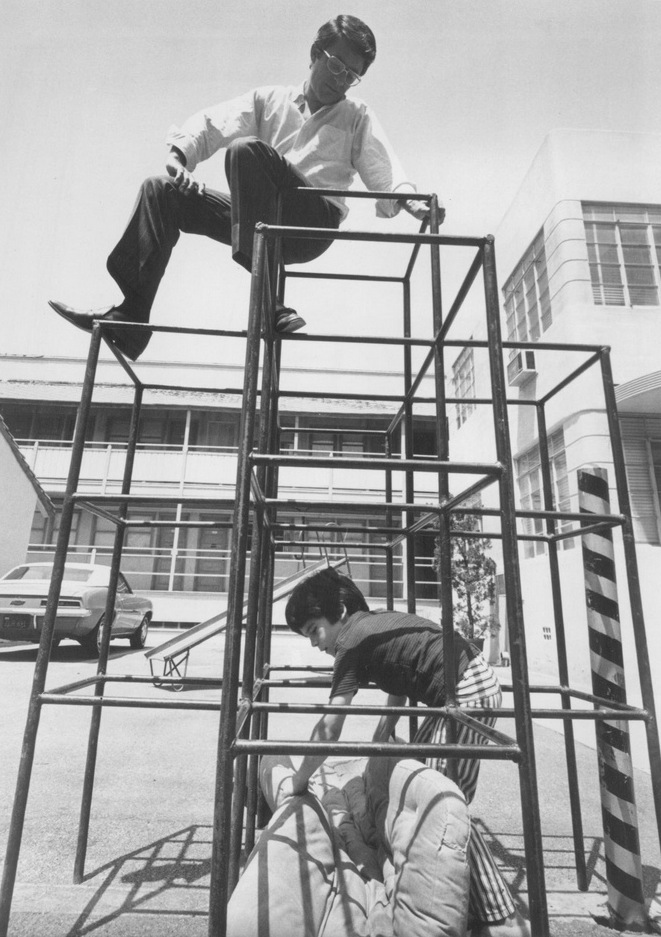 Publicity photo of American actors, Bill Bixby and Brandon Cruz promoting the ABC television series The Courtship of Eddie's Father.